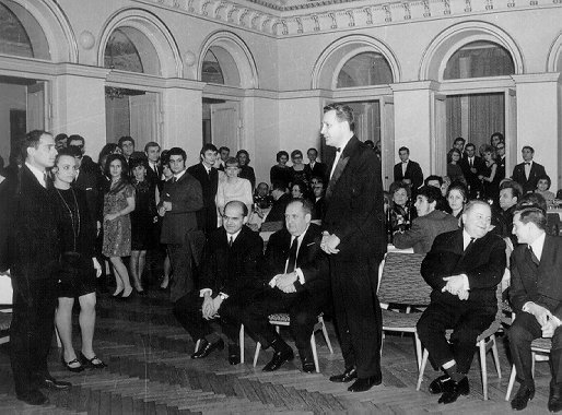 Ball is at University of Szeged